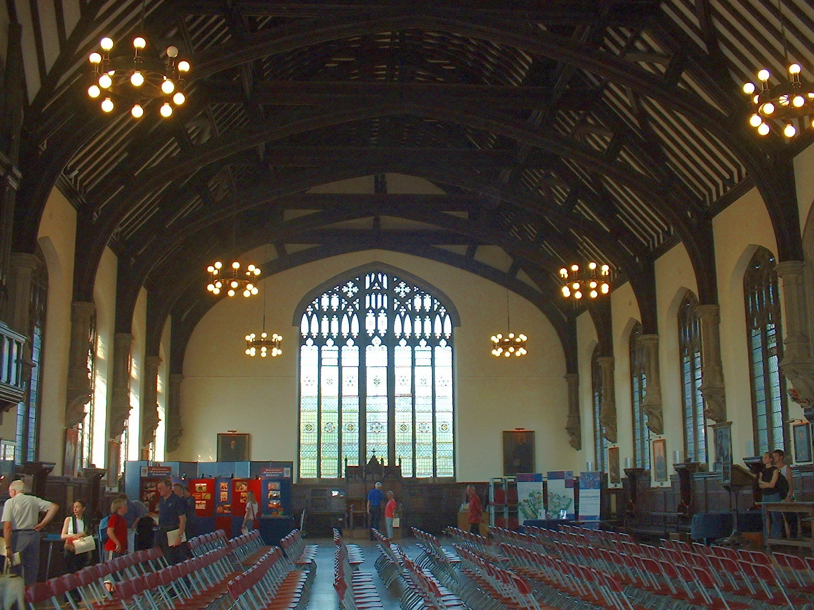 Bristol Grammar School, Great Hall during a school open day. Looking toward north window, high table to the right, main entrance and organ to the left. The hall is Grade II listed, built in 1879.[1]